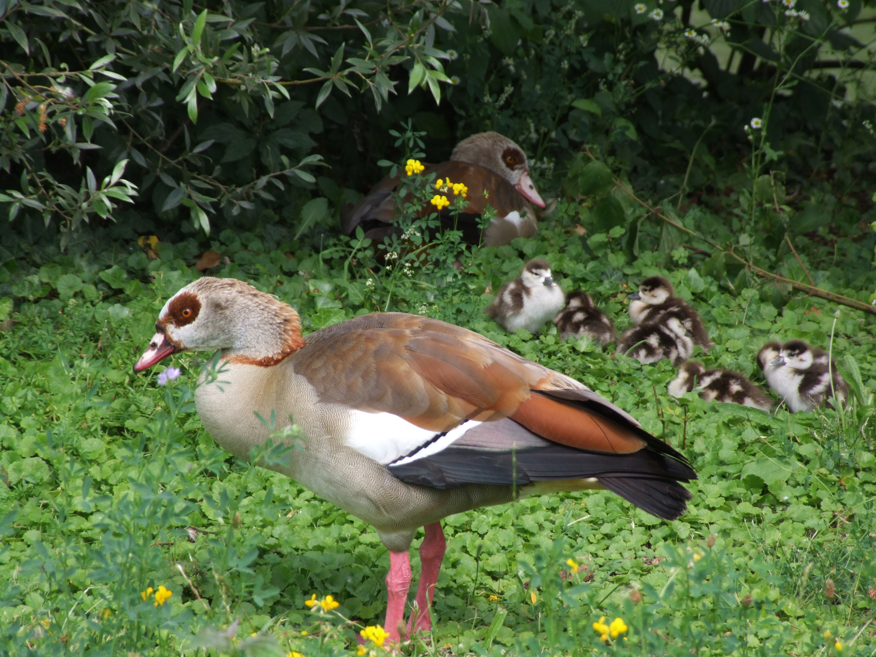 Egyptian Goose